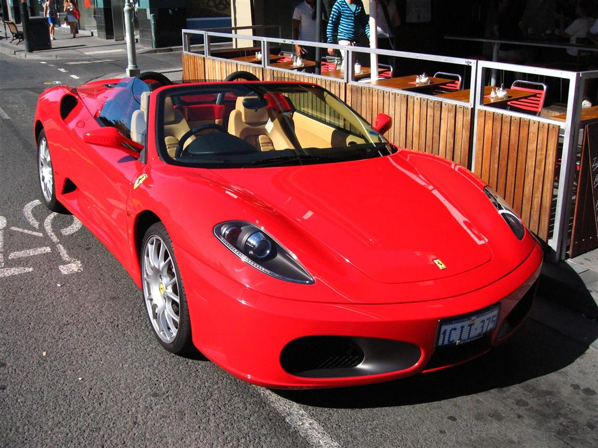 Ferrari F430 Spider in Melbourne, Australia Photo taken by Luke van Grieken on 4 February 2007 using a Canon IXUS 750 camera. Additional Ferrari images available at